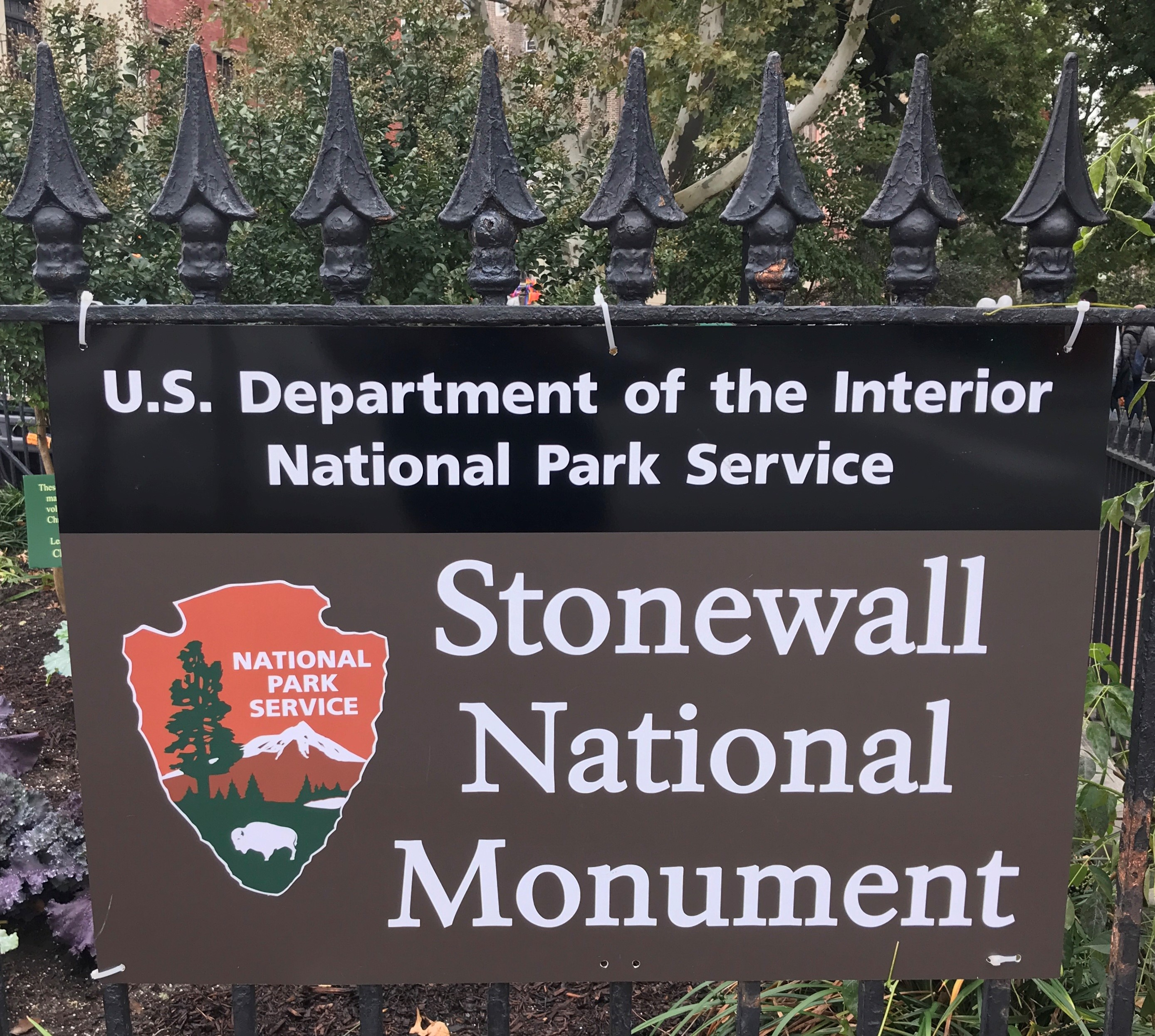 Stonewall National Monument sign at the entrance to Christopher Park in New York City, part of the U.S. Department of the Interior, National Park Service.